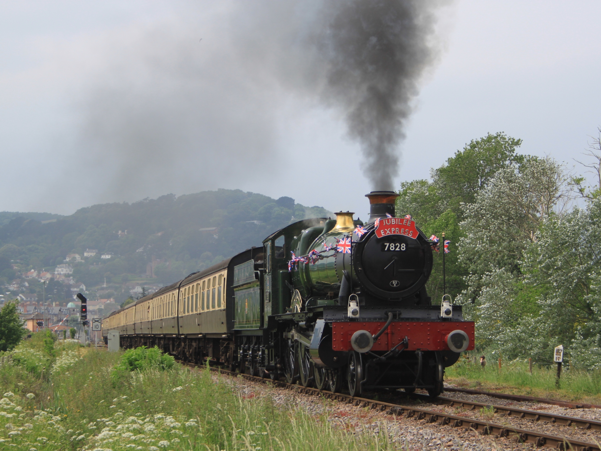 7828 Norton Manor pulls away from Minehead with the flag-bedecked Jubilee Express. This was the first day of operation for this non-stop train on the West Somerset Railway, which ran each day during the week of Queen Elizabeth's jubilee celebrations in 2012.